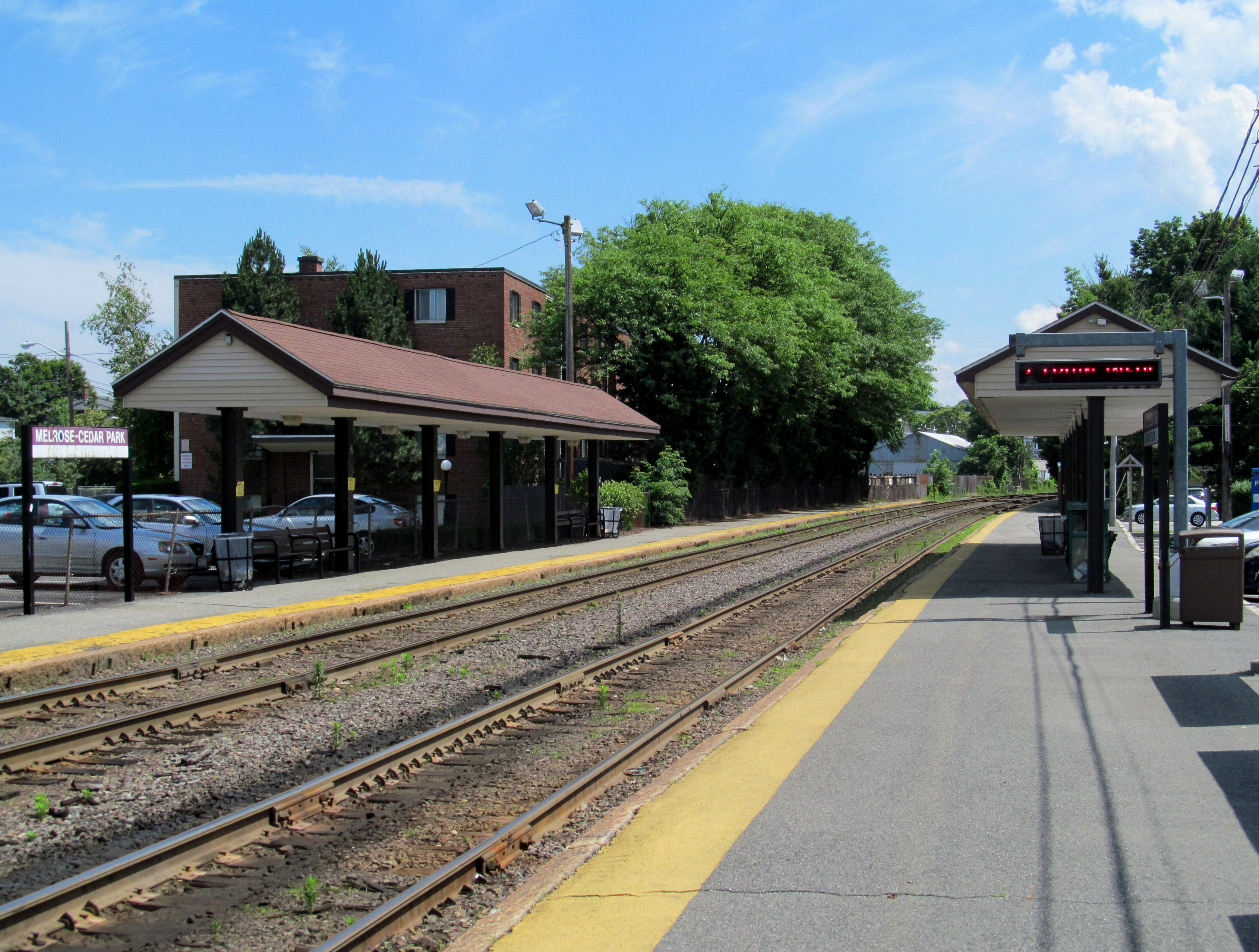 The shelters (remaining from the now-demolished station building) at Melrose/Cedar Park station in June 2012